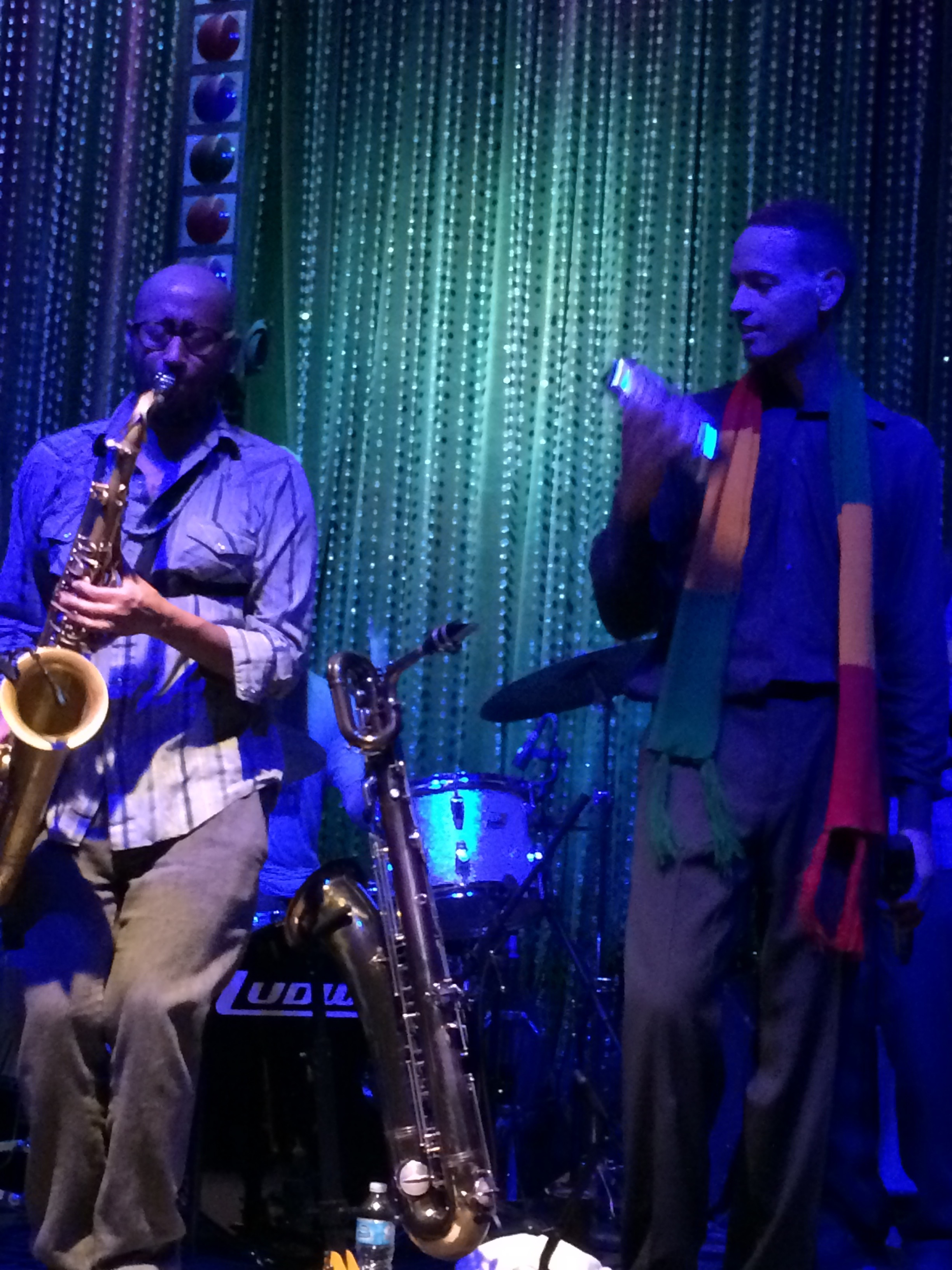 Saxophone player Danny Mekonnen and singer Bruck Tesfaye performing with Debo Band in 2014 at the World Café in Philadelphia, Pennsylvania.